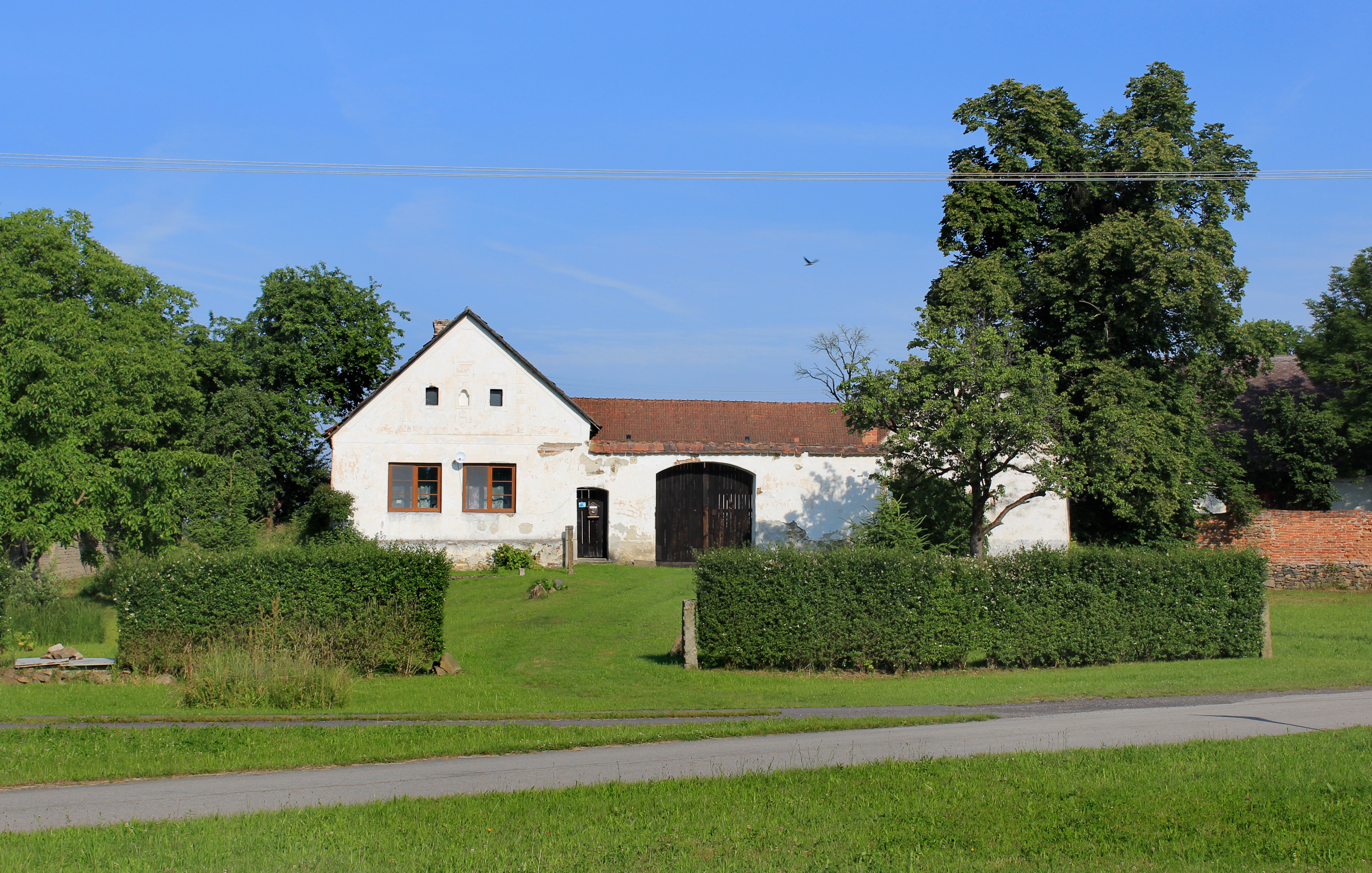 Common in Val village, Czech Republic.